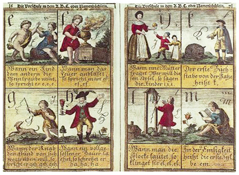 The ABC-booklet by Johann Balthasar Antesperg from Lower Bavaria, written in the Upper German literature language for the young Joseph II. later emperor of the Holy Roman Empire